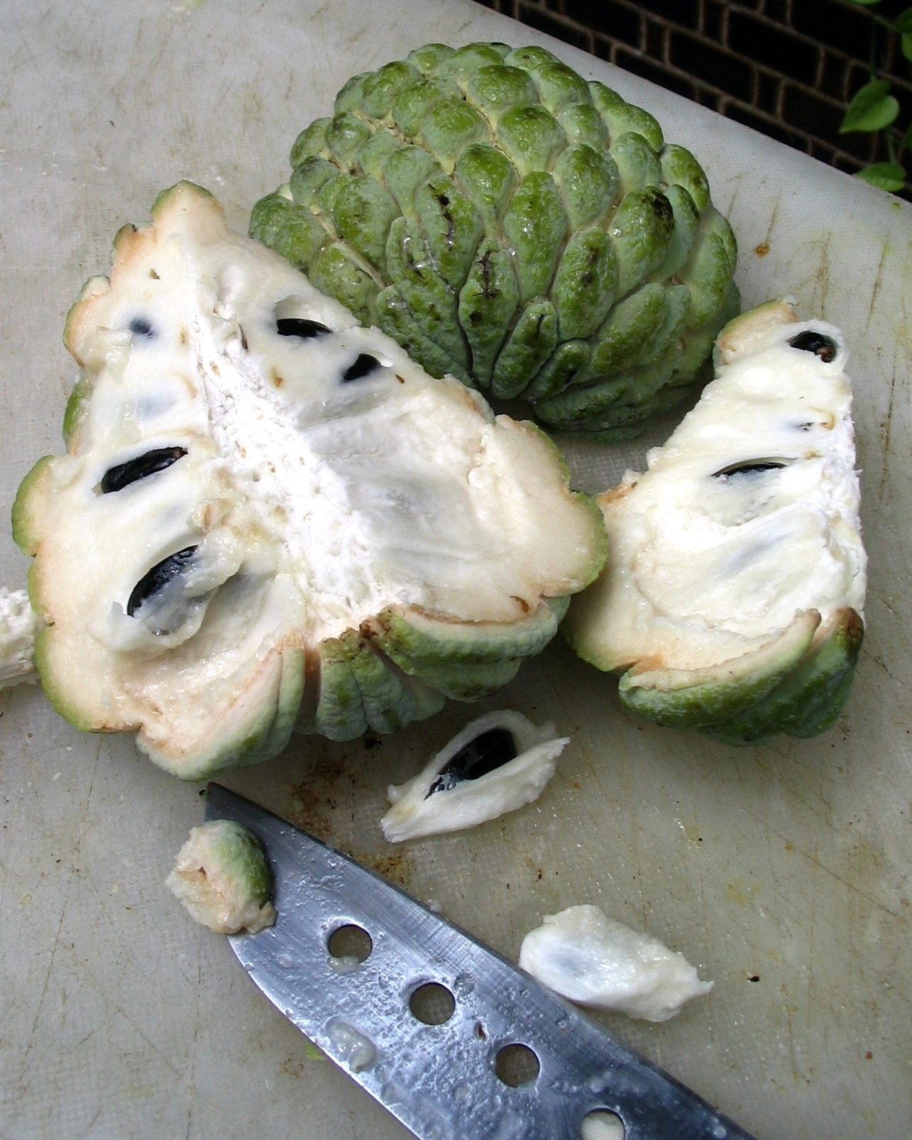 Custard Apple (Annona squamosa): Sweet and pulpy, especially around the seeds